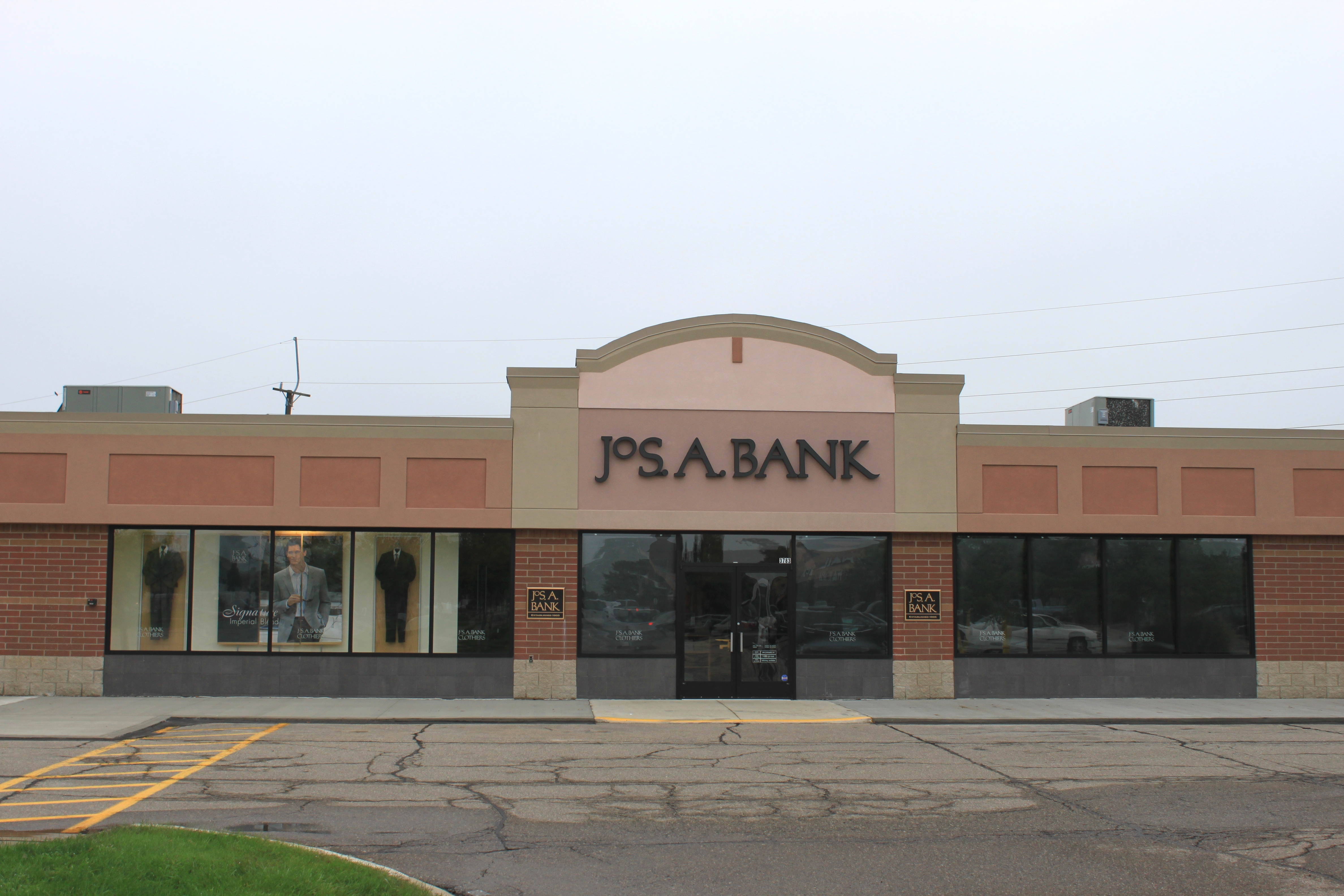 Jos. A. Bank Clothiers store, 3783 Washtenaw Avenue, Arborland Center, Ann Arbor, Michigan